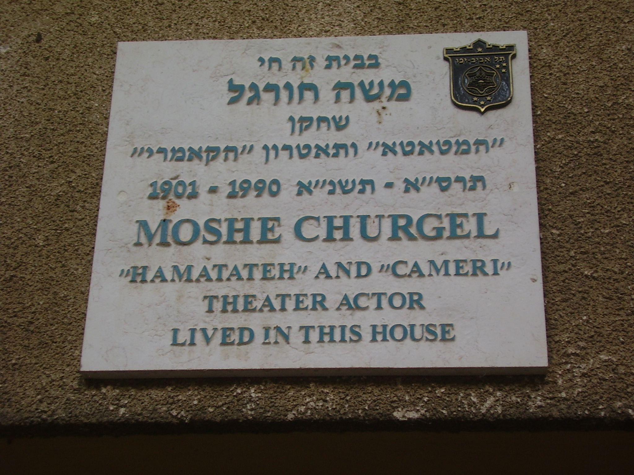 memorial plaque on the actor moshe churgel house in tel aviv לוחית זיכרון על ביתו של השחקן משה חורגל ברח' עין חרוד 13 בתל אביב